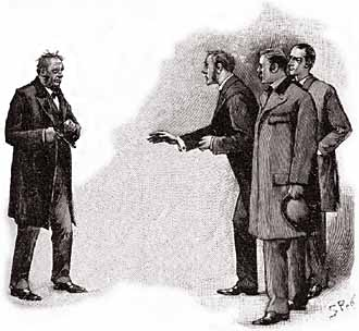 Sherlock Holmes in "The Adventure of the Resident Patient", which appeared in The Strand Magazine in August, 1893. Original caption was IN HIS HAND HE HELD A PISTOL."